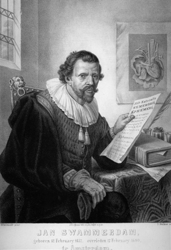 Fake portrait of Dutch naturalist Jan Swammerdam (1637-1680). for its story.